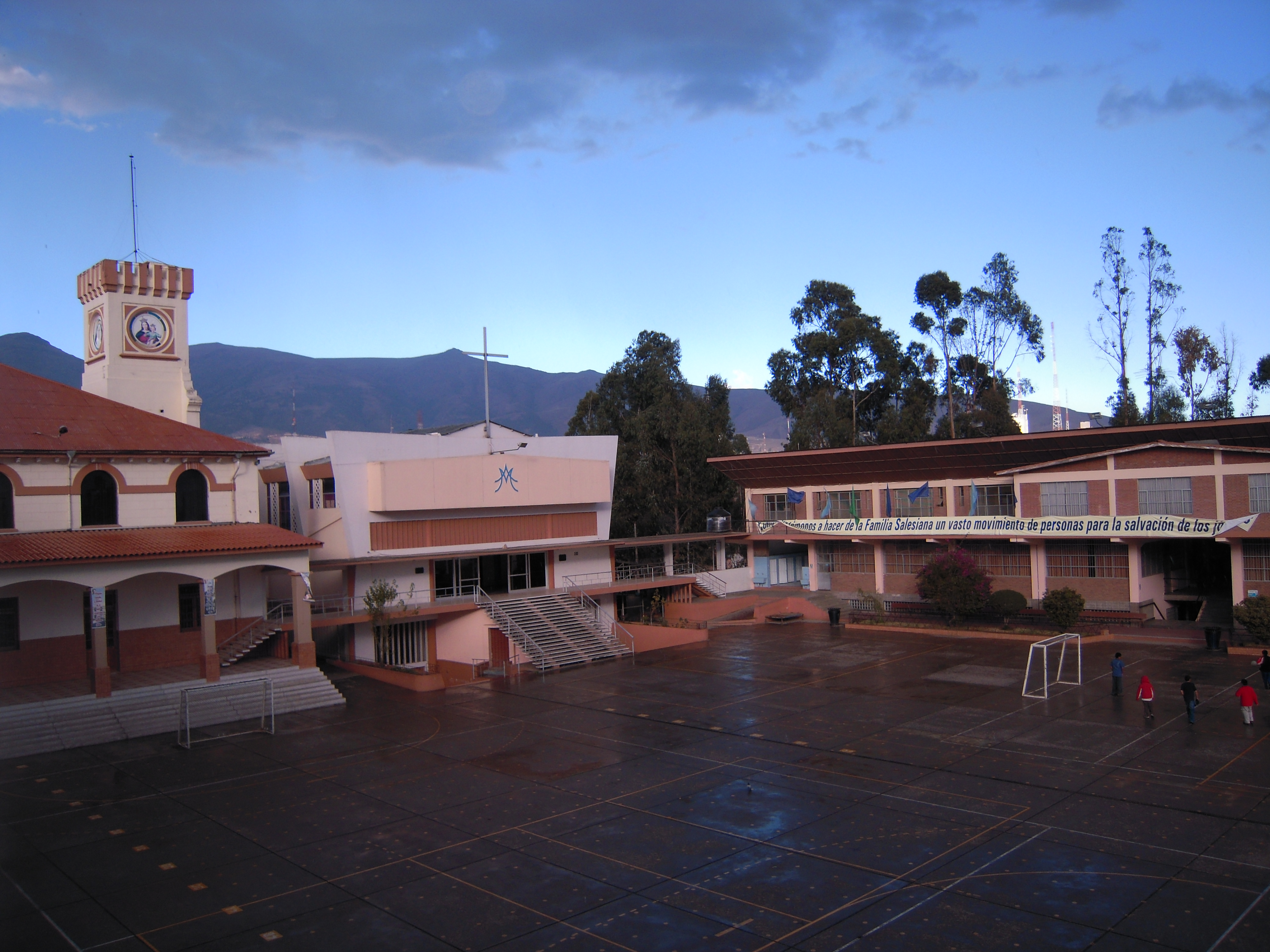 Here you can see the schoolyard of the high school - Salesiano Santa Rosa - Huancayo Peru